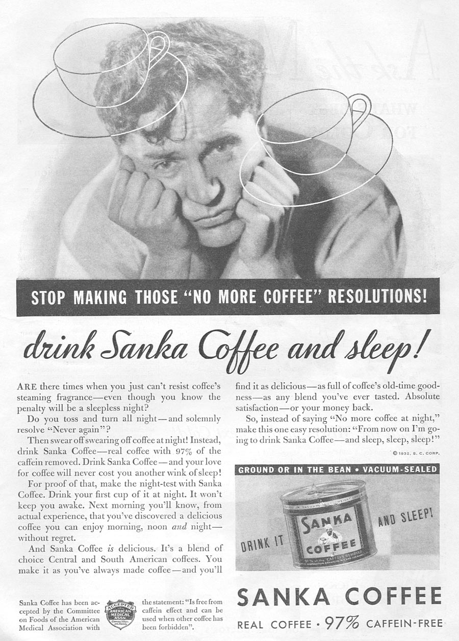 1932 advertisement for Sanka decaffeinated coffee, from Sanka Coffee Corporation, purchased in that year by General Foods. Out of the magazine Good Housekeeping.